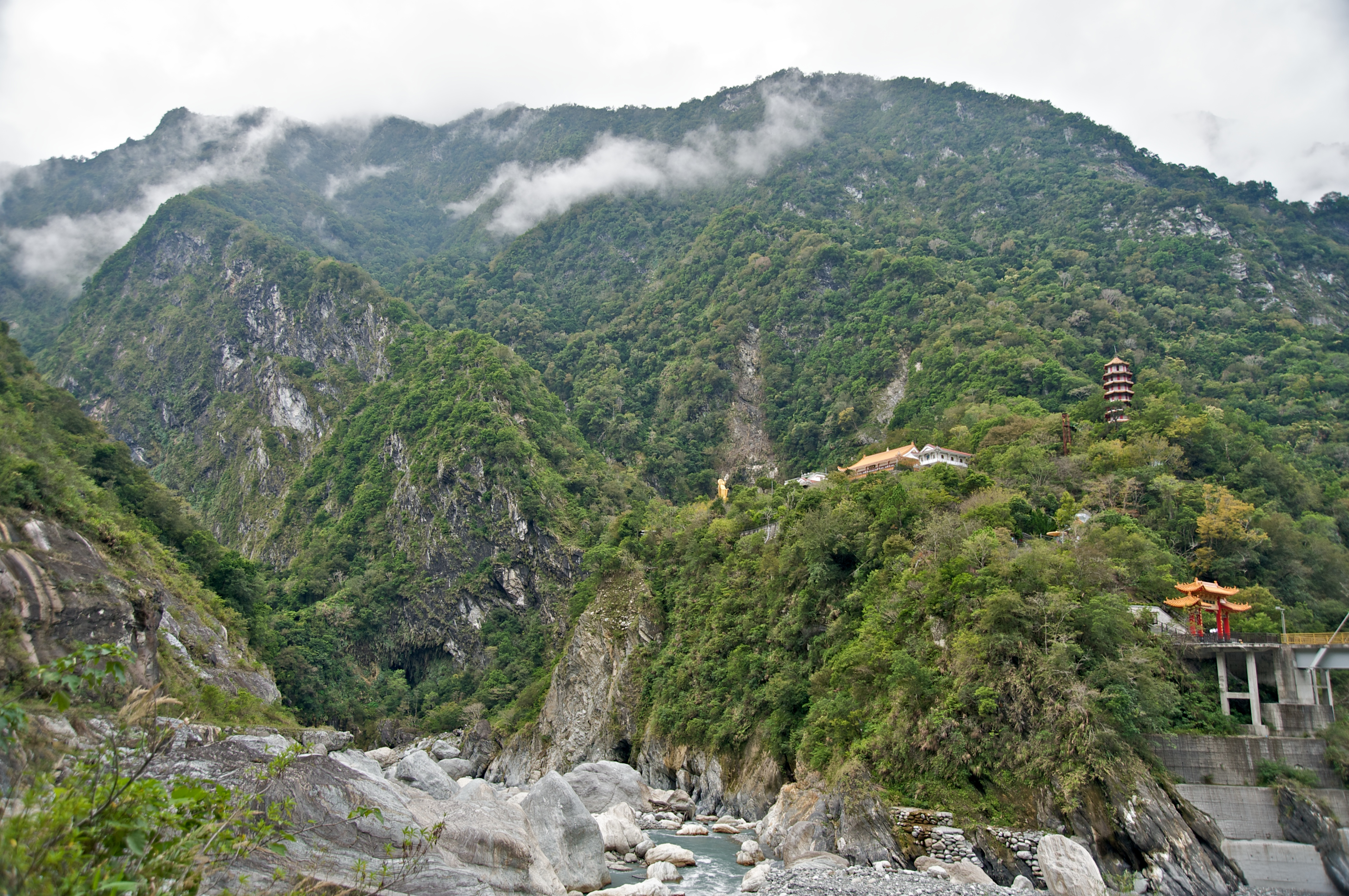 Spectacular view of the Taroko Gorge on the Central Cross-Island Highway in Taiwan.The picture right shows Siangde Temple at Tiensiang.